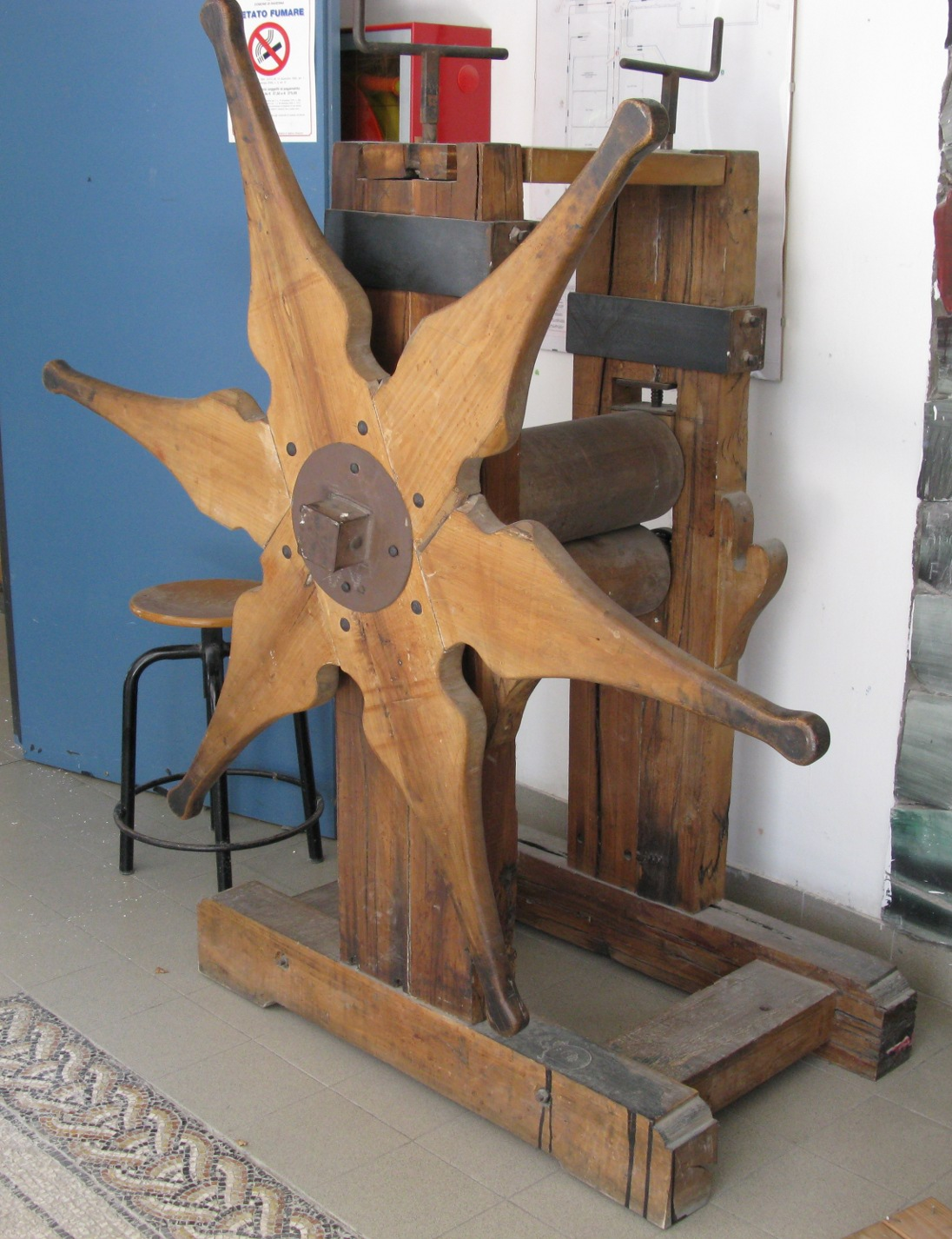 Copperplate press; copperplate printing press; rolling press.